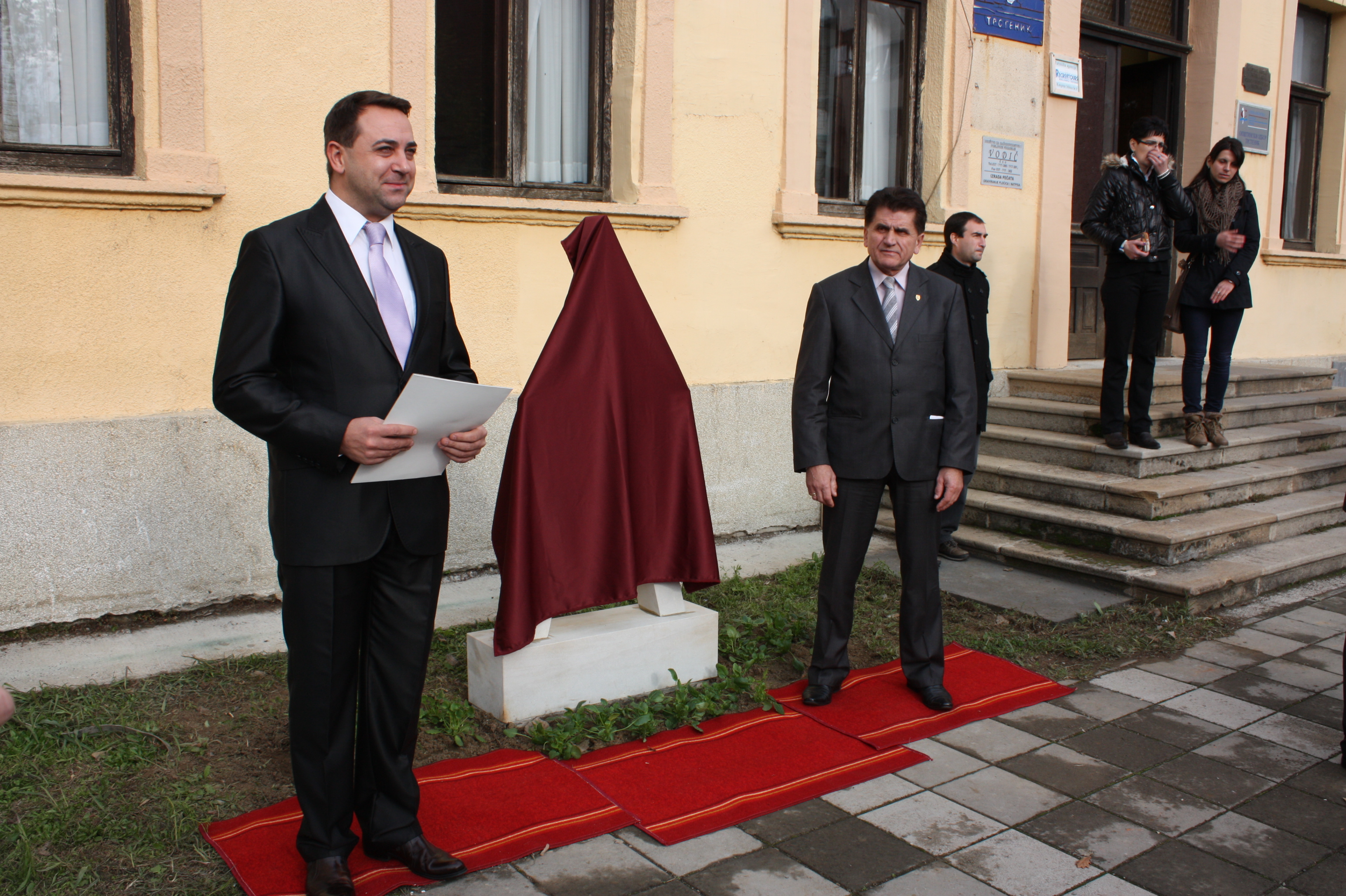 Otkrivanje spomenika ispred prve zgrade osnovne škole u Trsteniku povodom 200 godina školstva u opštini